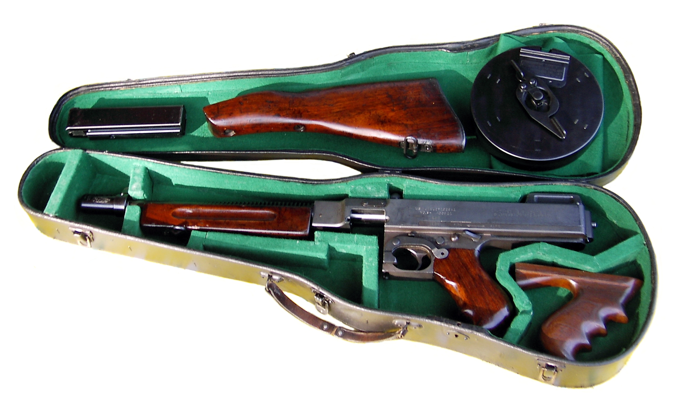 Thompson Submachine Gun, Model 1928A1, stored in a violin case